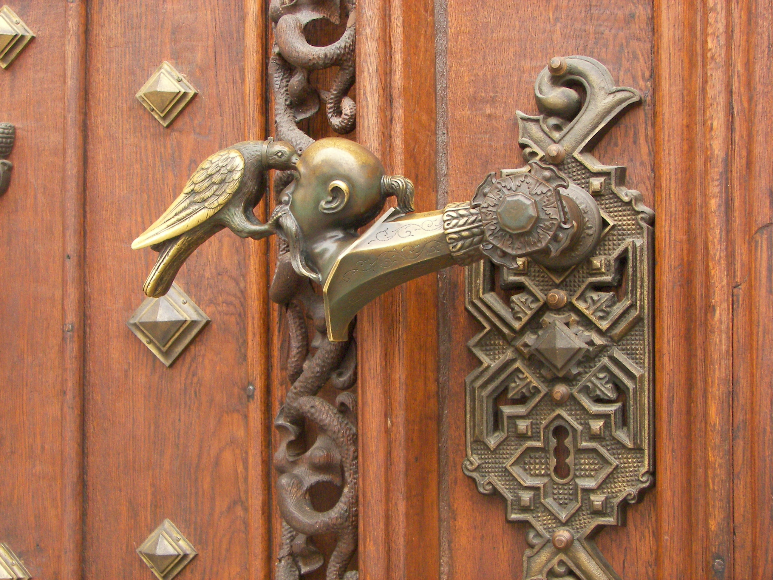 door handle of the castle of Hluboka with the coat of arms